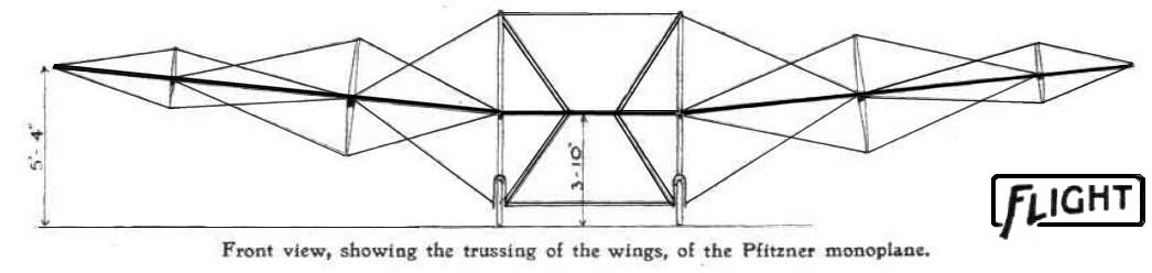 Front view of wing trussing and king posts on the Pfitzner Flyer 1910